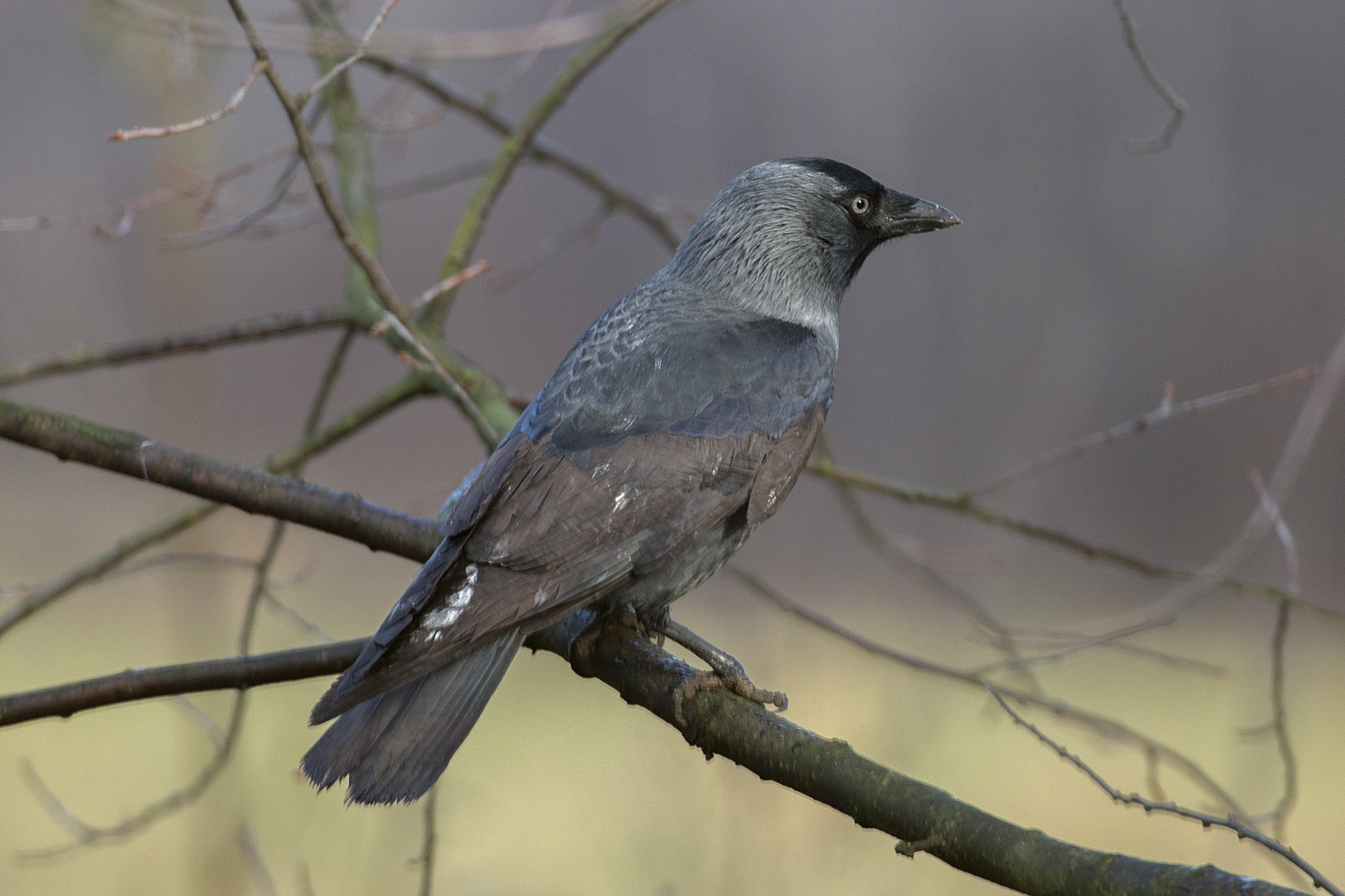 The Jackdaw, Poland